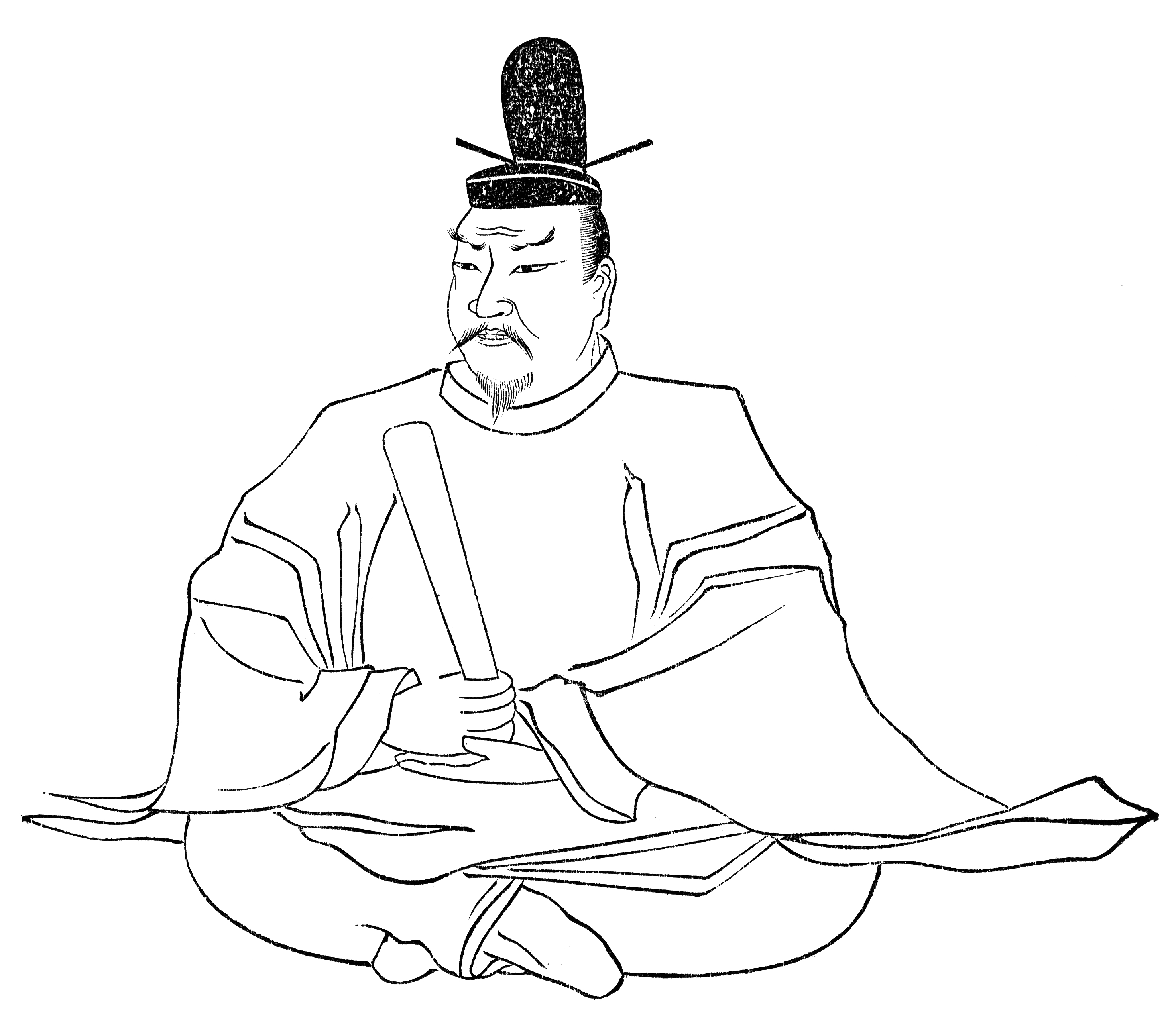 Portrait of the Emperor Temmu (Temmu Tennō)